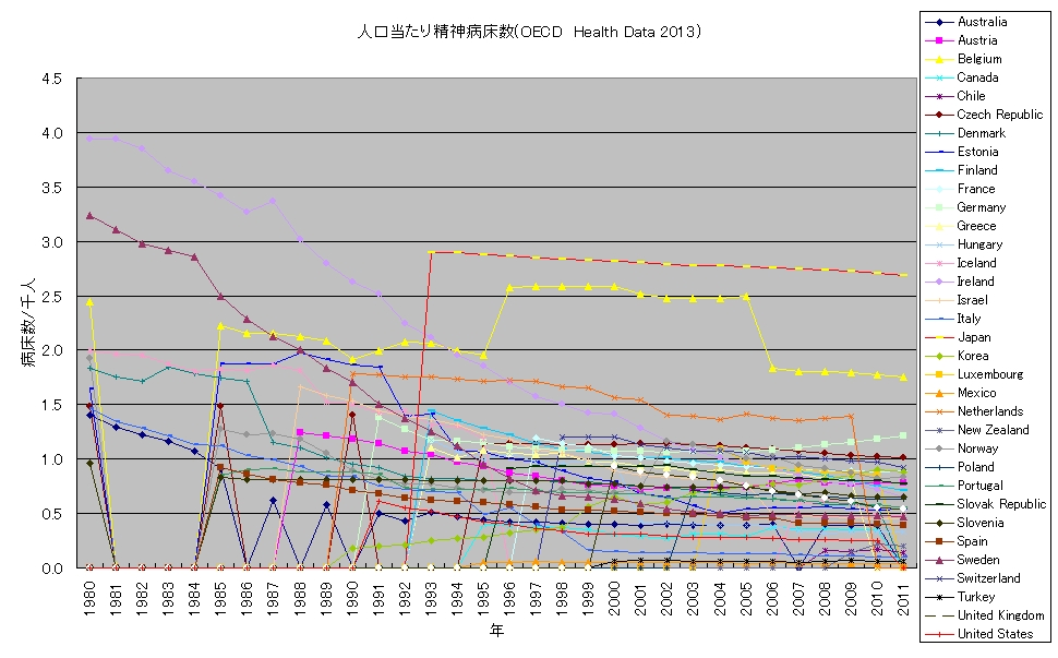 Population per number of mental disease floor (OECD Health Data 2013)